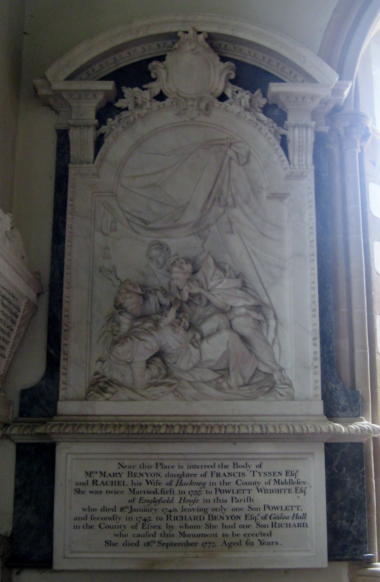 Monument commemorating Mary Benyon (d.1777) inside St Mark's Church, Englefield, Berkshire. "Near this Place is interred the Body of Mrs. Mary Benyon, daughter of Francis Tyssen Esqr. and Rachel, his wife of Hackney in the County of Middlesex She was twice Married, first in 1737, to Powlett Wrighte Esqr. of Englefield House in this Parish who died 8th January 1740 leaving only one Son Powlett, and secondly in 1745, to Richard Benyon Esqr. of Gidea Hall in the County of Essex by whom She had one Son Richard, who caused this Monument to be errected She died 18th September 1777, Aged 62 Years." Monument is unsigned, and believed to be by Robert Taylor (1714-1788).